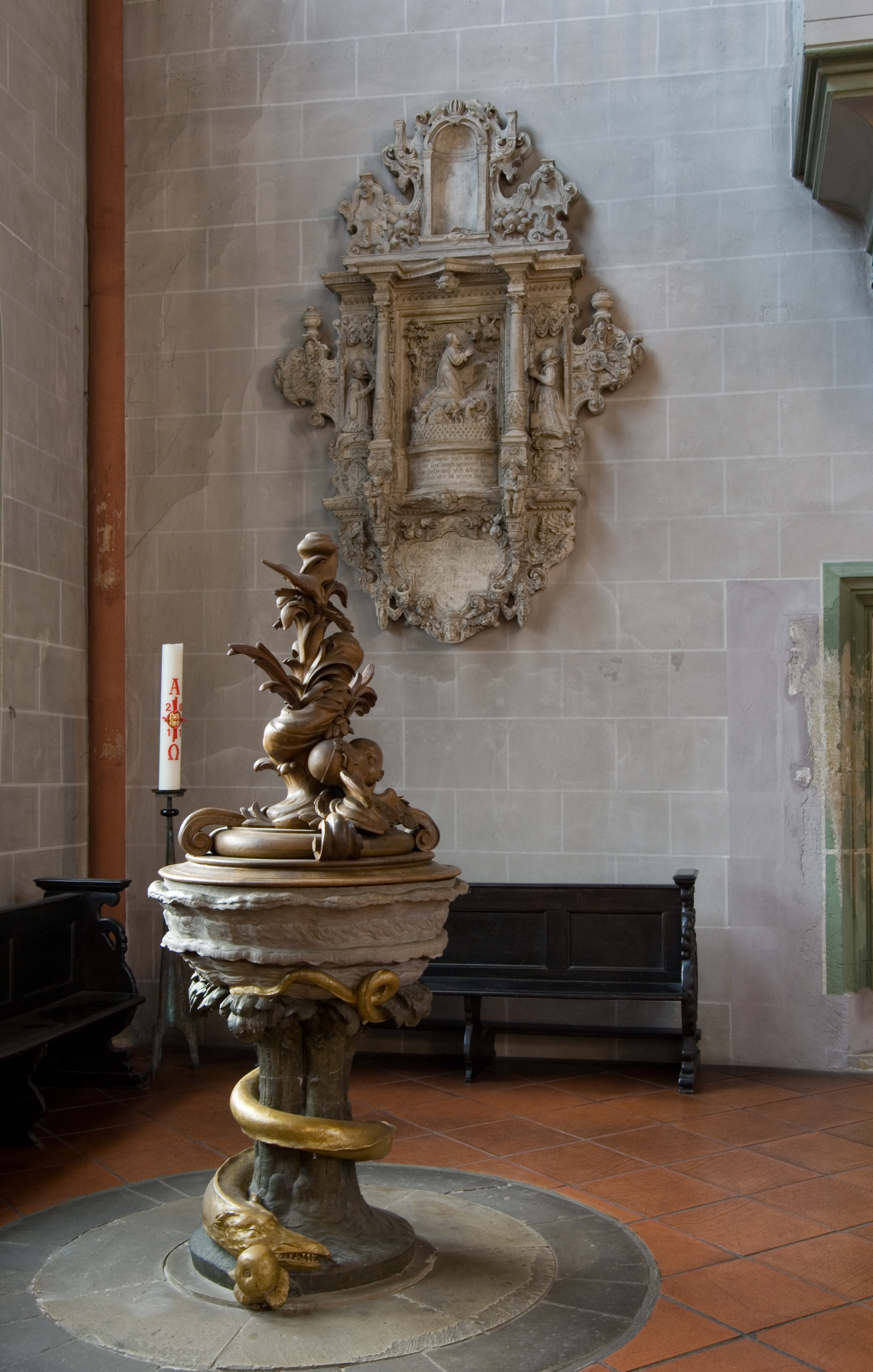 Münster (North Rhine-Westphalia, Germany) – Überwasserkirche (Church of Our Lady) – interior This photograph was taken with a Nikon D3000